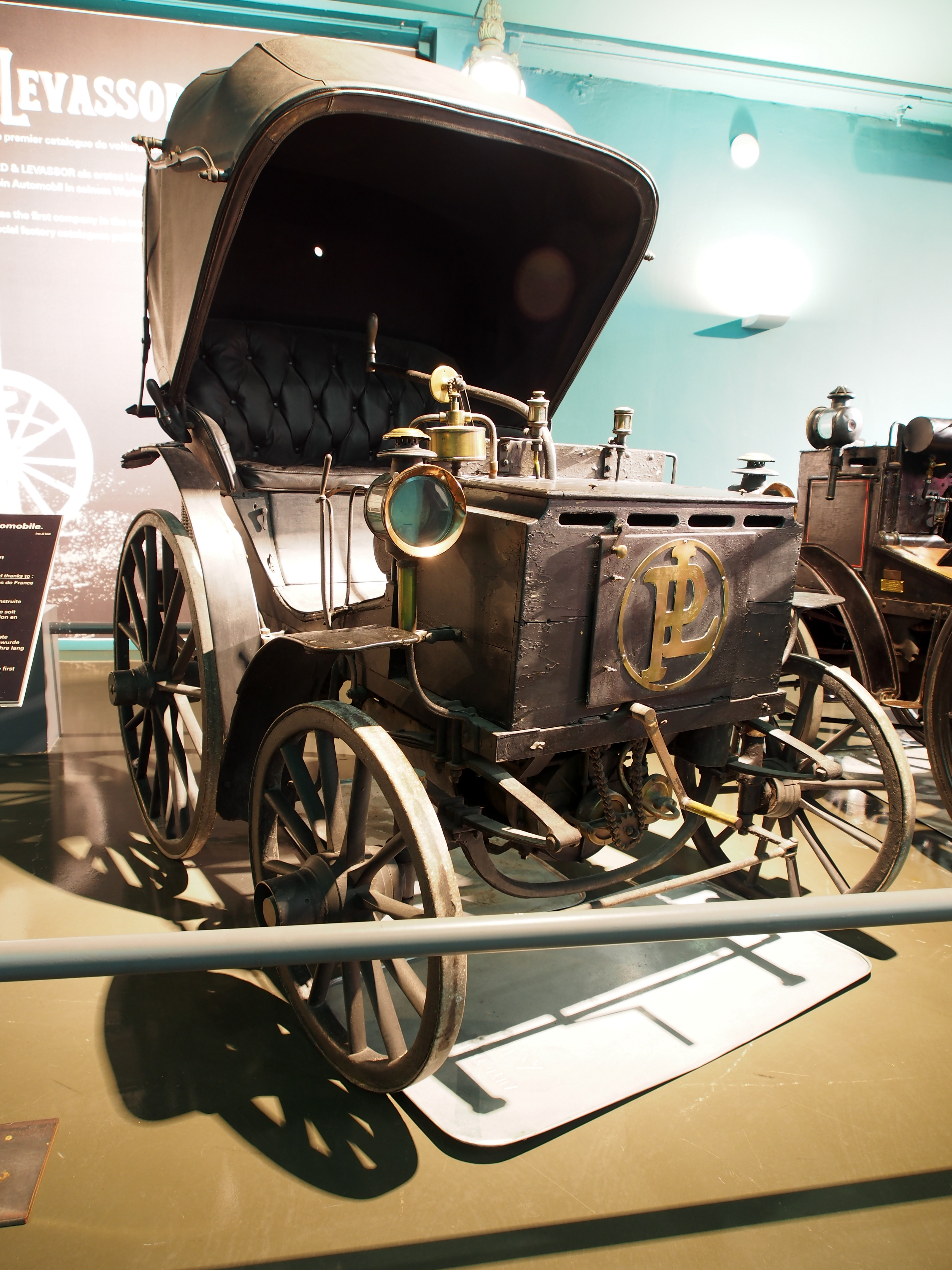 Photographed at the Cité de l'Automobile, France.